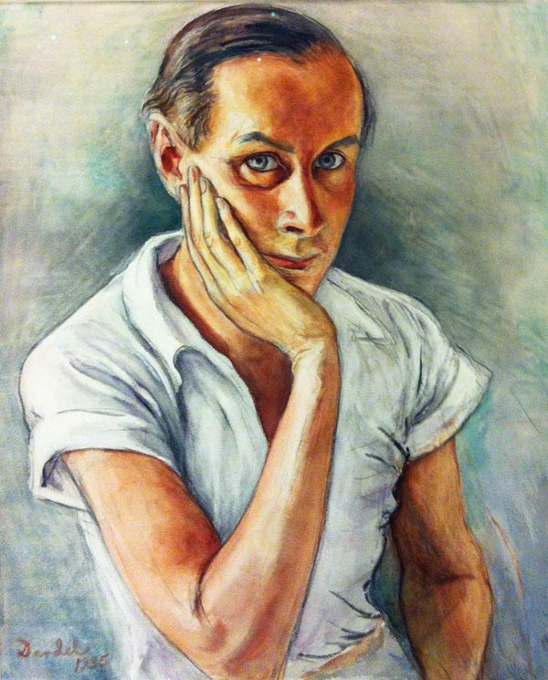 Painting by Nils Dardel, info to come